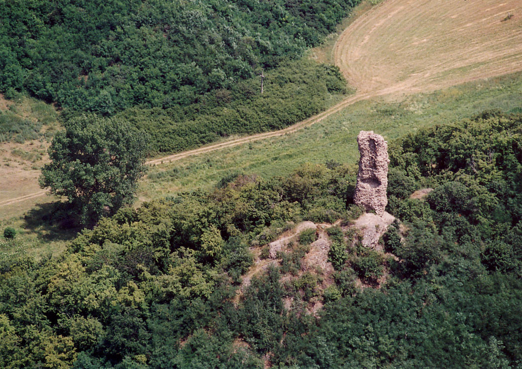 Castle - Mátraderecske - Hungary - Europe